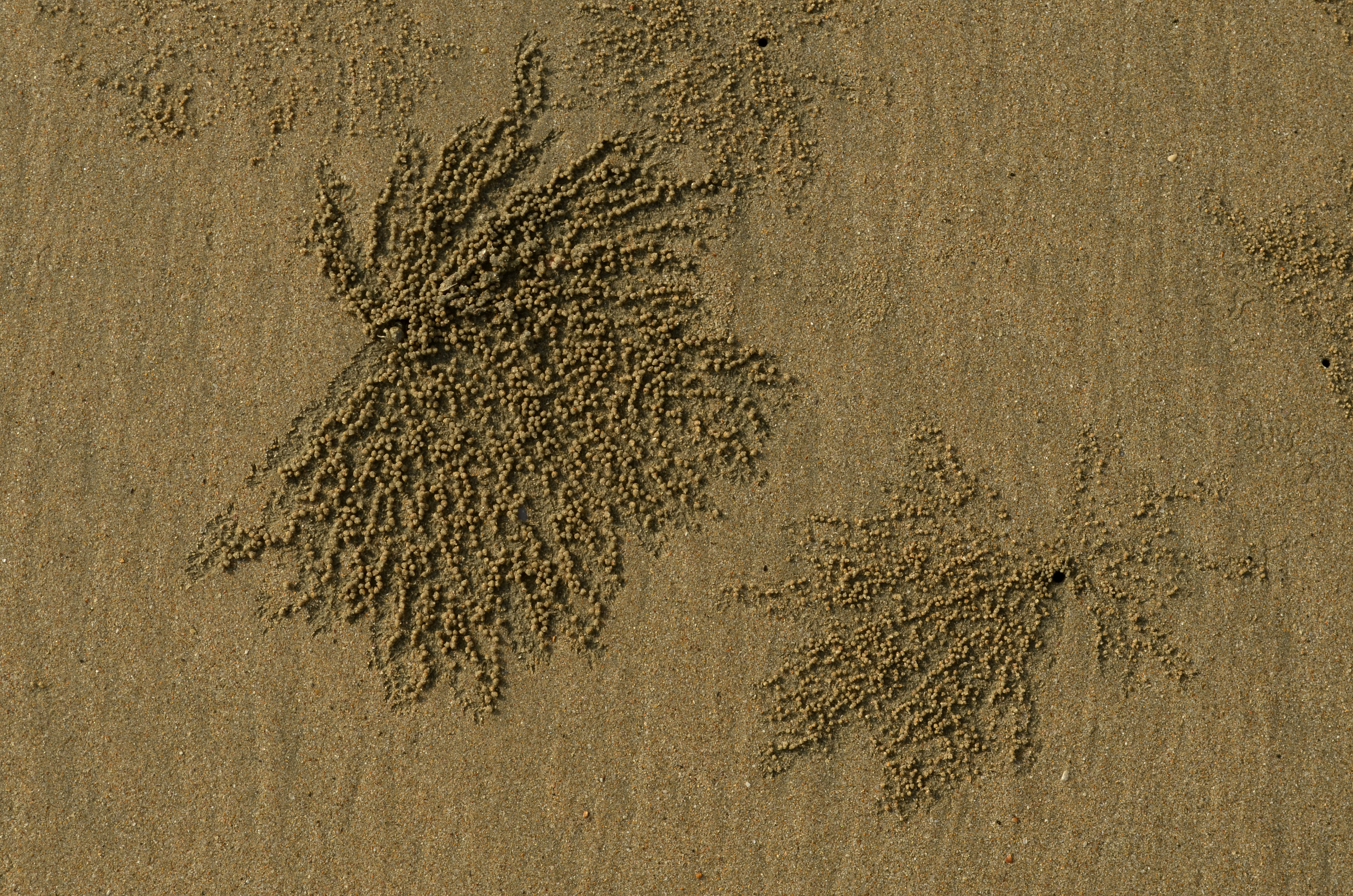 Sun burst or Sand beads of Soldier Crab Dotilla myctiroides_2_ in Palolem Beach, Goa.